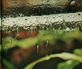 Baby bettas hanging from the nest